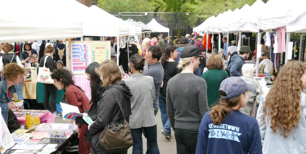 Image of Cultural Traffic Art Fair in New York from 2018.